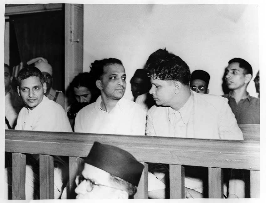 The trial of persons accused of participation and complicity in Mahatma Gandhi's assassination opened in the Special Court in Red Fort Delhi on May 27, 1948. A Close up of the accused persons. Left to right front row: Nathuram Vinayak Godse, Narayan Dattatraya Apte and Vishnu Ramkrishna Karkar. Seated behind are (from left to right) Diganber Ram Chandra Badge, Shankar s/o Kistayya, Vinayak Damodar Savarkar, Gopal Vinayak Godse and Dattatrays Sadashiv Parachure.